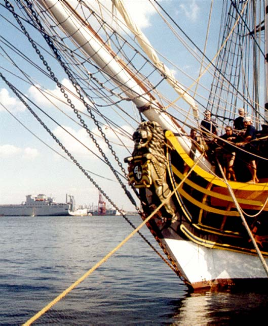 HMS Rose in 2000 on a voyage from Charleston to Baltimore